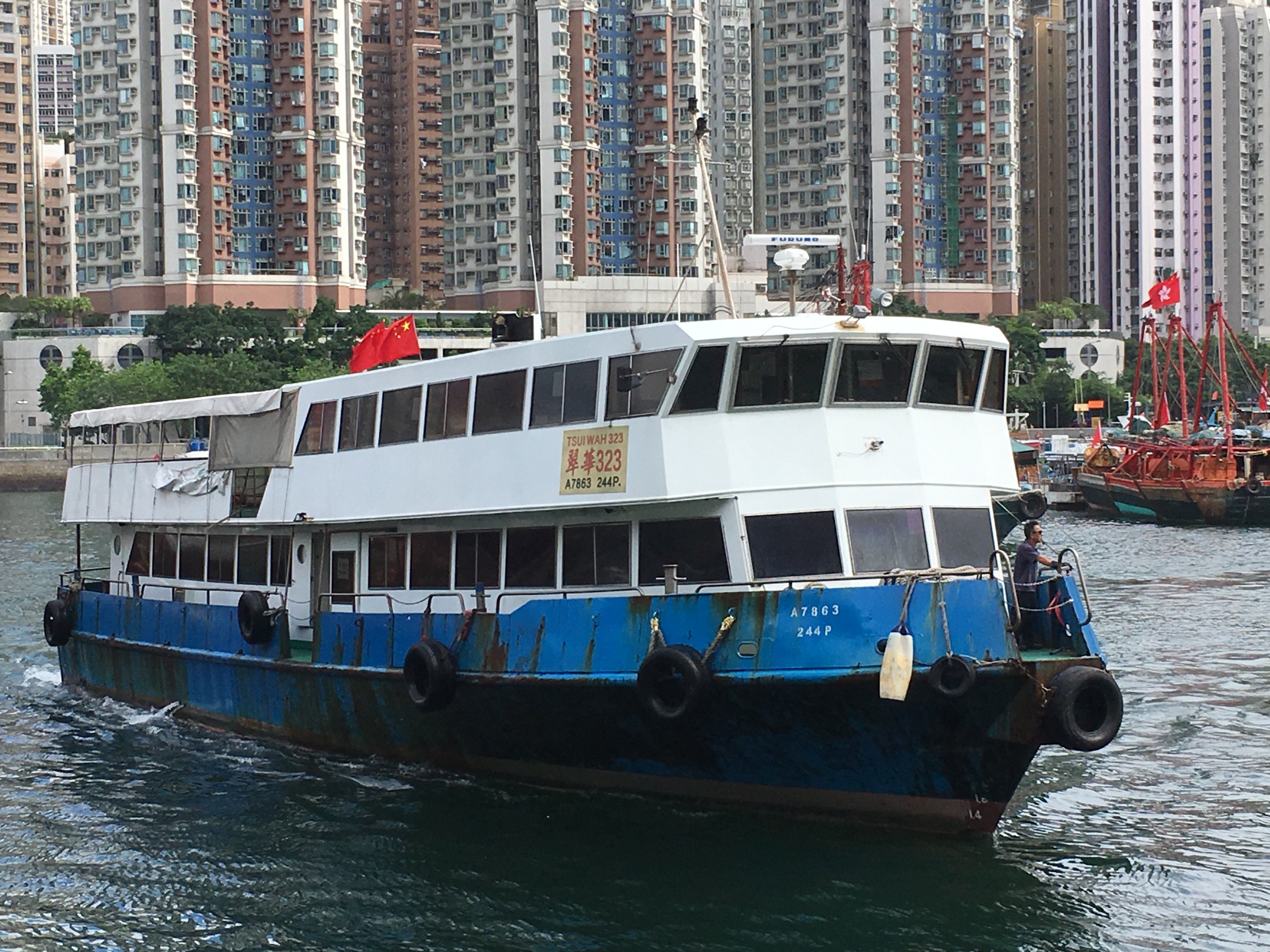 This ferry is taken in Aberdeen.